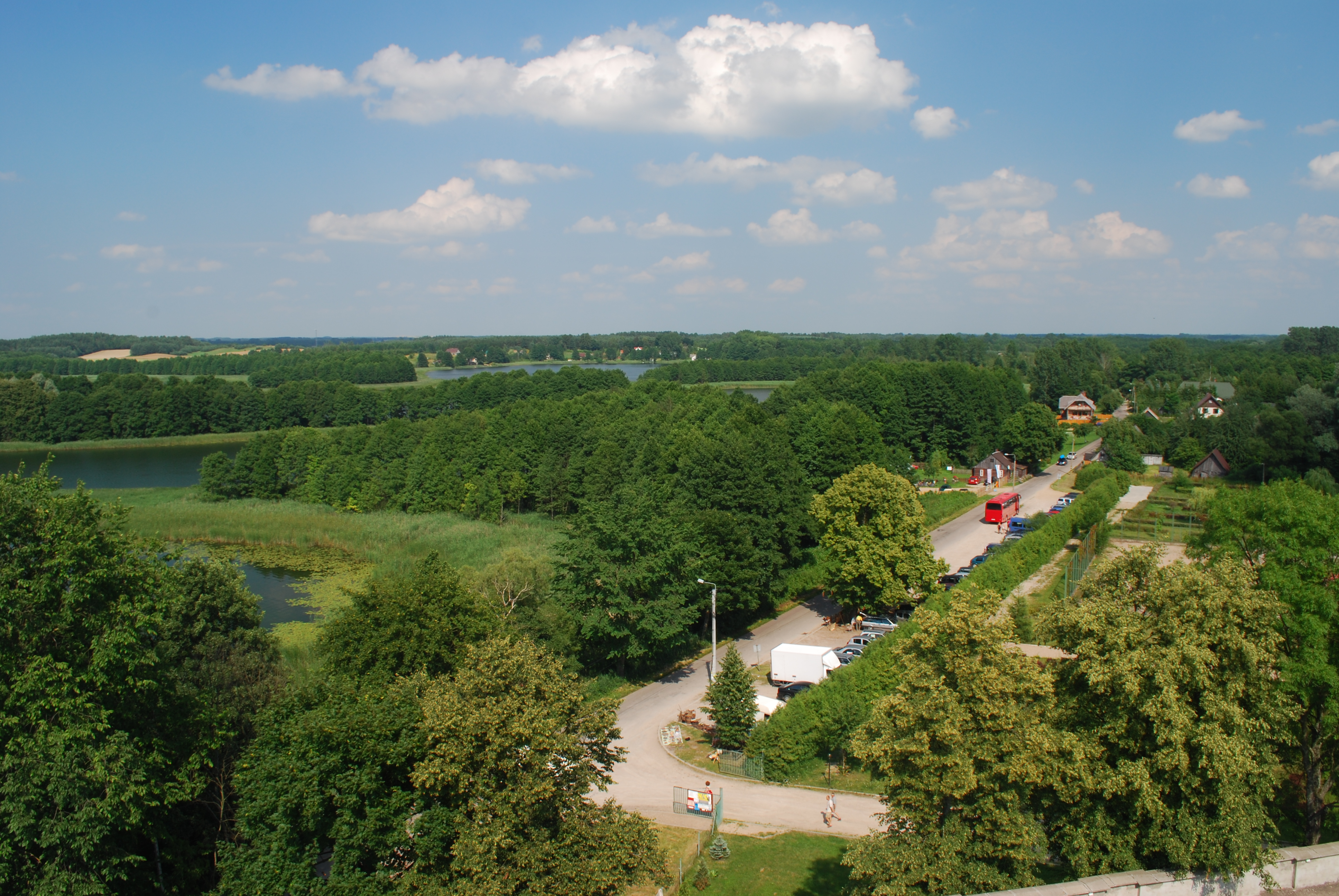 This photo from Podlaskie Voievodeship was taken during Polish Wikiexpedition 2009 set up by Wikimedia Polska Association. The making of this document was supported by Wikimedia Polska. Widok na wieś wigry z wieży klasztoru.